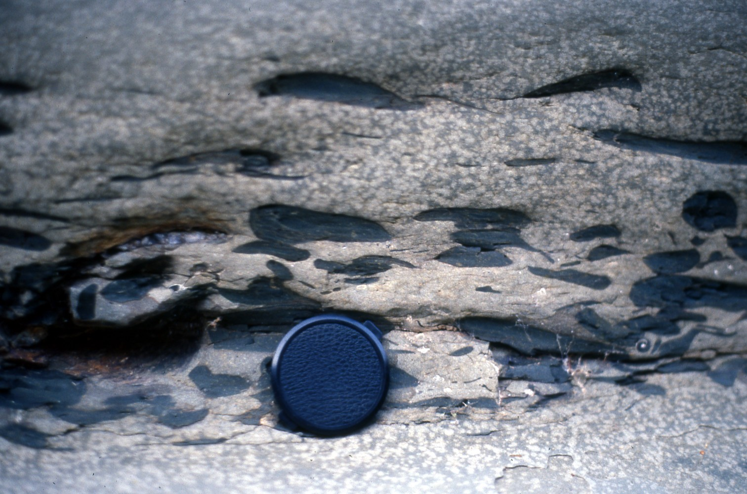 Matilja Formation — Rip-up clasts in a nearshore marine sandstone. In the Topatopa Mountains, Ventura County, Southern California.